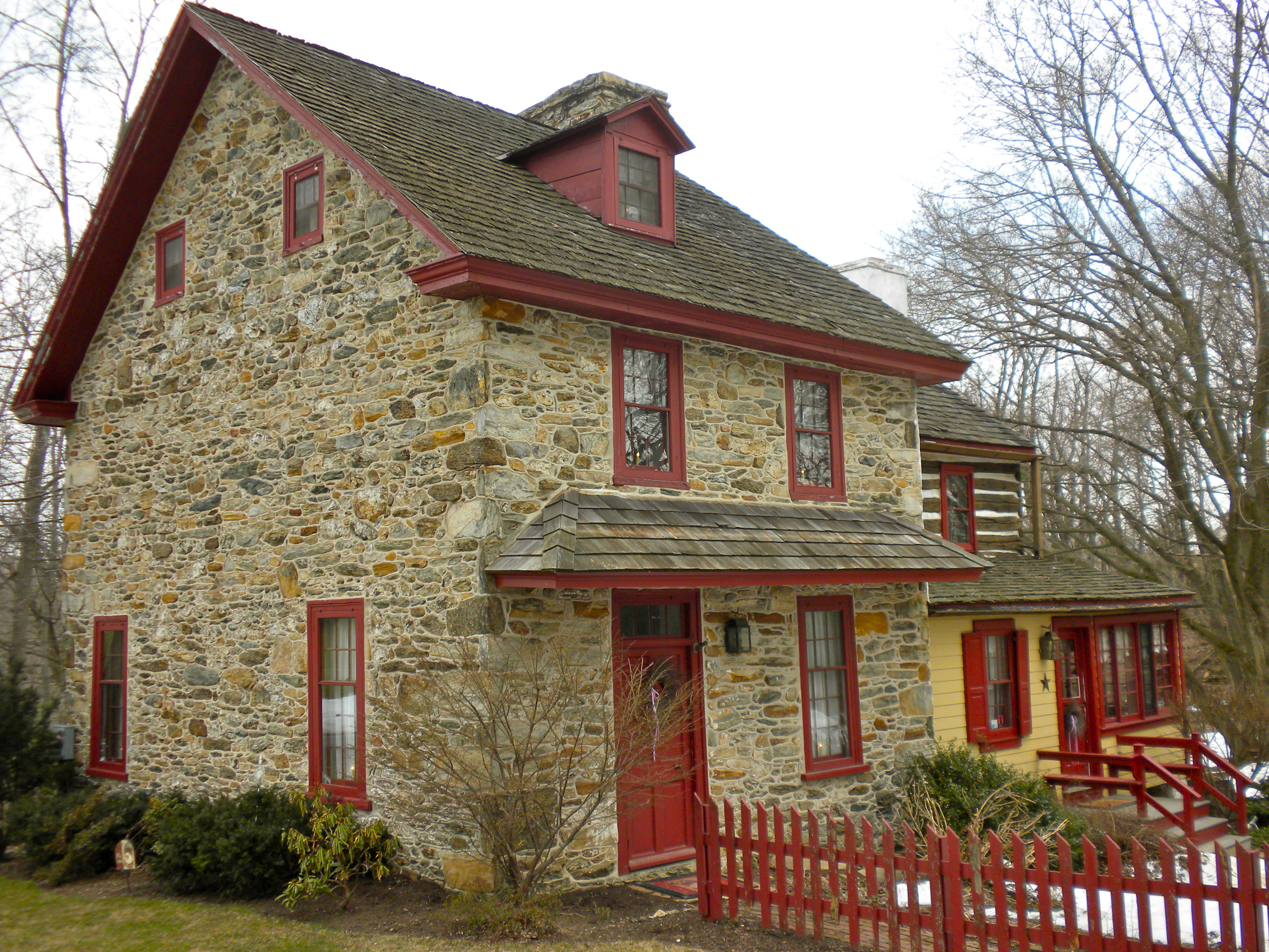 David Scott House in Chester County,PA. On Mt. Carmel Rd. near Strasburg Road. On NRHP since May 20, 1985. Near Coatesville in East Fallowfield Township. Owner tells me the log cabin part is old, but not original to the house, having been moved from a nearby village. Note that there are 3 NRHP listings in a short stretch of Mt. Carmel Rd, but I can only find 3, so this may be mis-identified (but owner identified it).